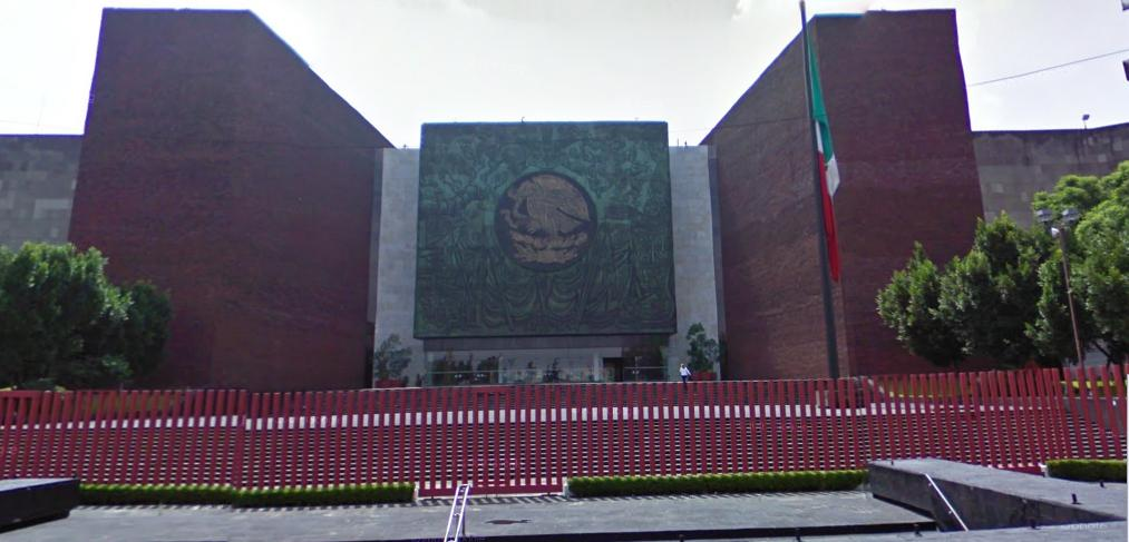 San Lazaro Legislative Palace, headquarters of the Chamber of Deputies.